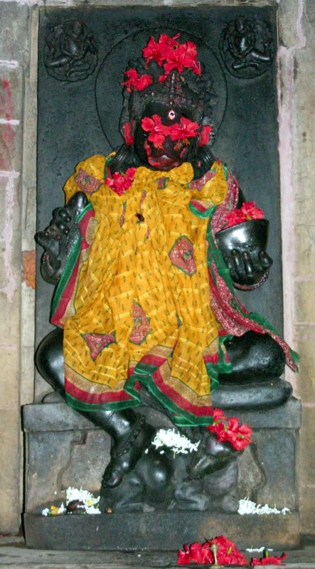 ~ VARAHI above her Buffalo Vahana ~ cup for blood ~ - in GarbhaGrha - Tantric Devi - Chaurasi, ORISSA